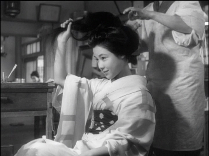 Ayako Wakao, a Japanese actress